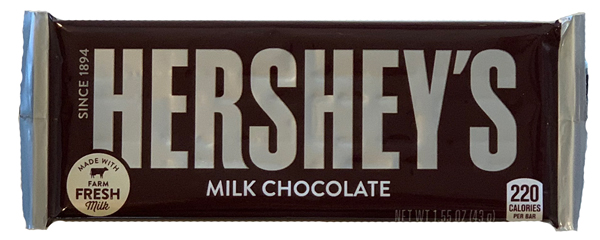 HERSHEY'S Milk Chocolate Bar wrapper features their logo, the flavor variety and the calories. It is a brown wrapper with silver edges and silver writing.